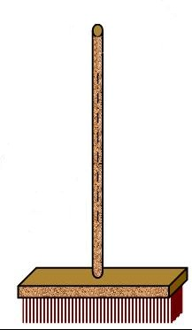 A cleaning brush